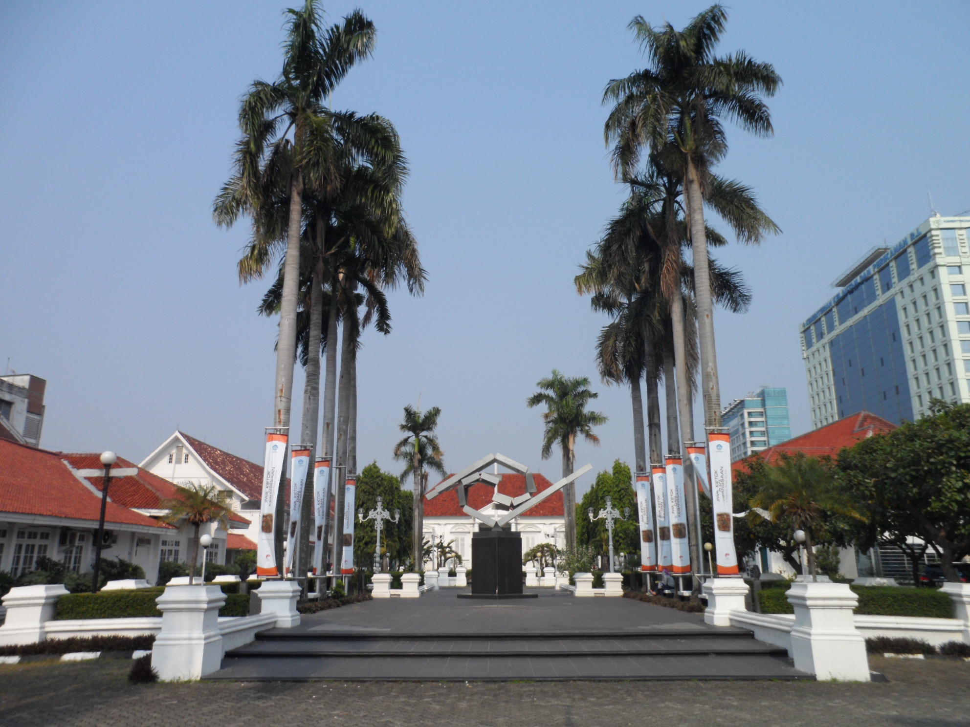 National Gallery of Indonesia, Gambir, Central Jakarta, IndonesiaBahasa Indonesia: Galeri Nasional Indonesia, Gambir, Jakarta Pusat, Indonesia